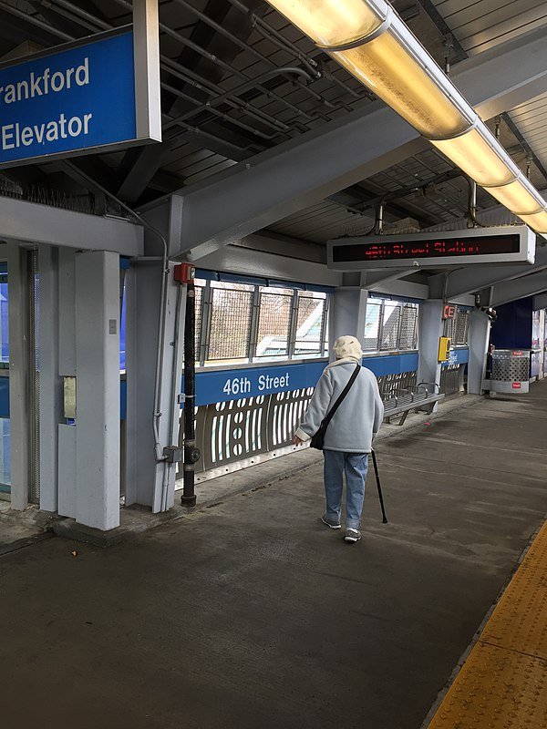 46th Street